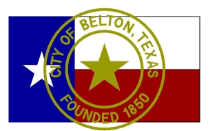 City Flag of Belton Texas. First produced in 1922.